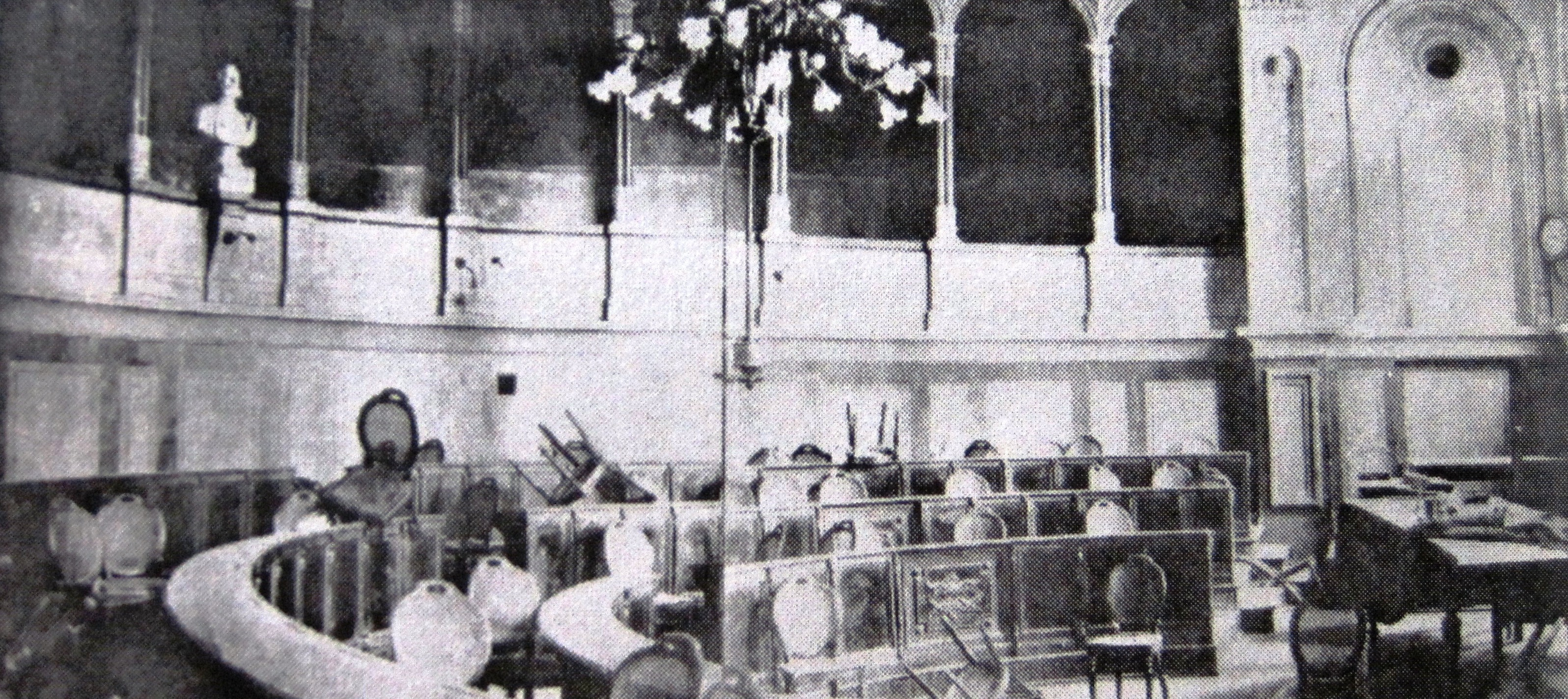 Tiflis City Duma chamber after the Cossack attack. August 29, 1905